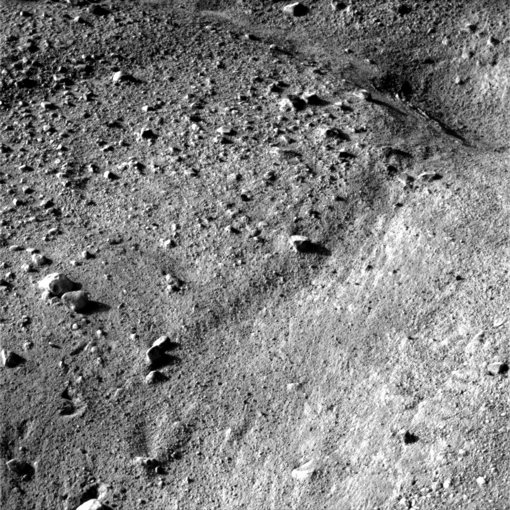 A landing-day image from NASA's Phoenix Mars mission showing a polygonal impression in the nearby surface.